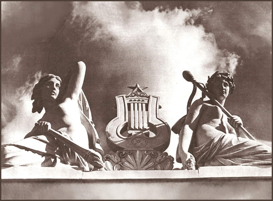 Latvian National Opera. 1860 - 1863. Sculpture. Architect L. Bohnstedt. Sculptor Hermann-Friedrich Wittig (1819-1891), Berlin.